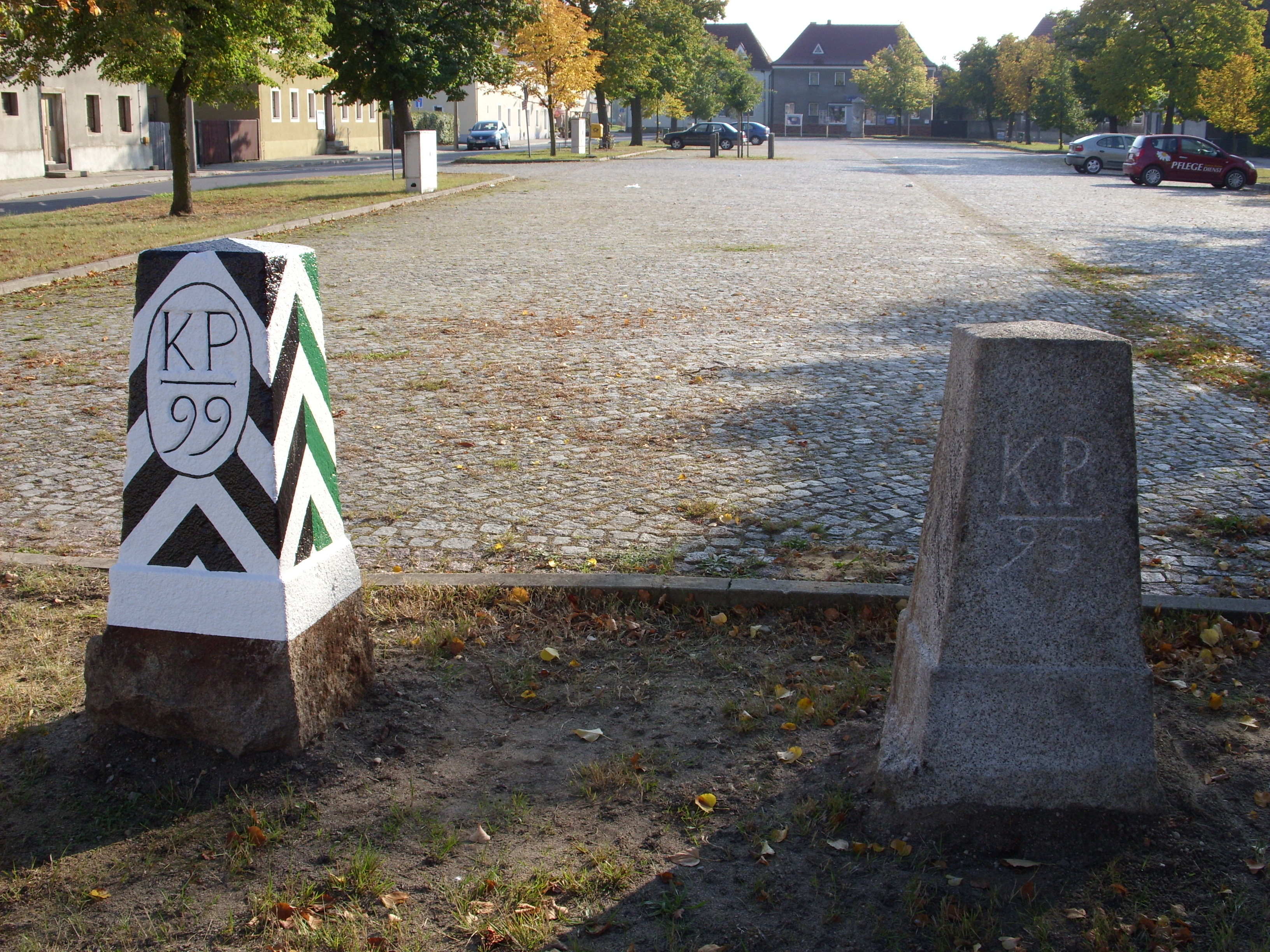 Historic boundary stones between Saxony and Prussia in Königswartha, Bautzen district. Hornjoserbsce: Historiski saksko-pruski měznik čo. 99, dźensa nastajeny na torhošću w Rakecach